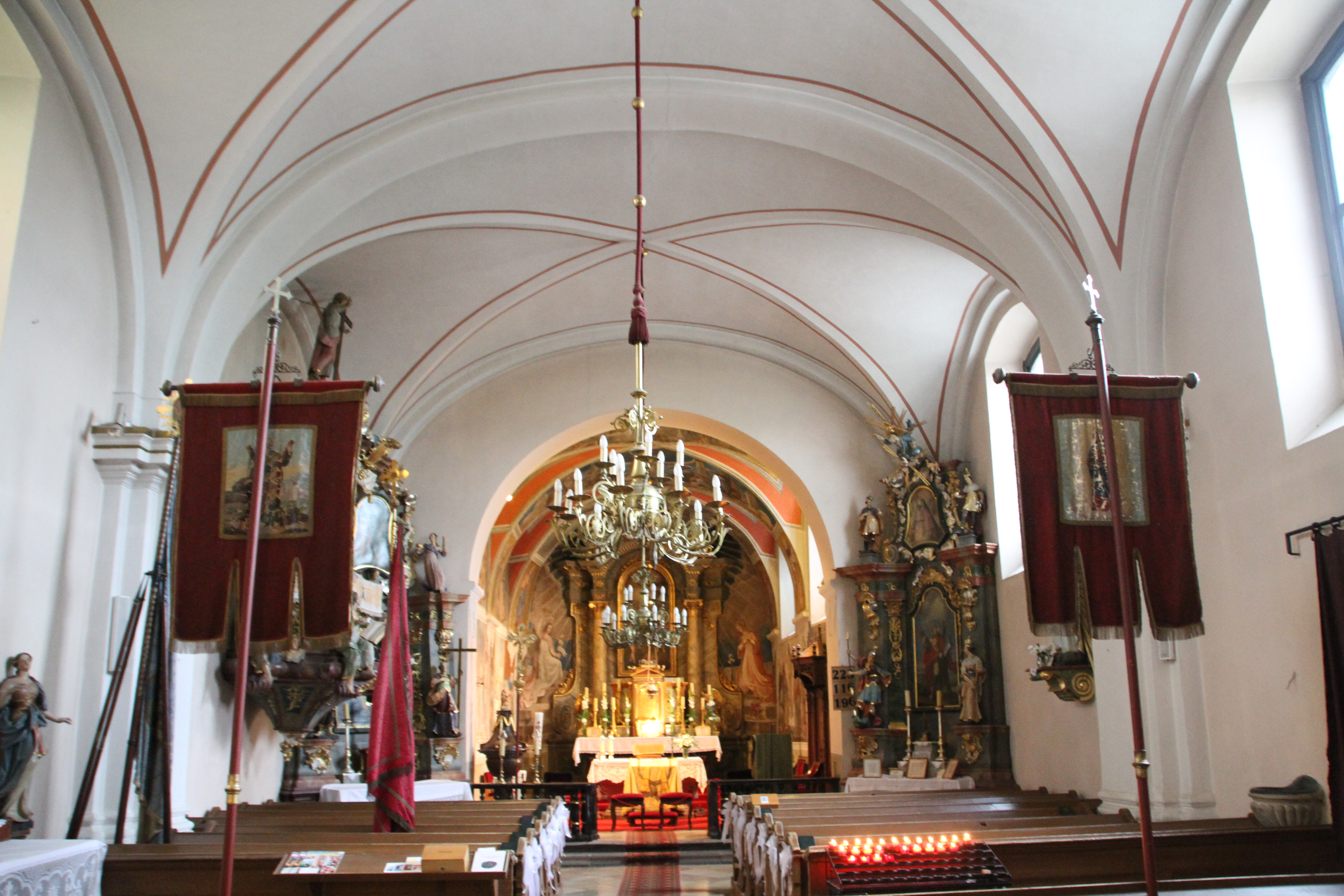 Image of the Saint János Roman Catholic Parish Church in the city of Szentendre, Hungary